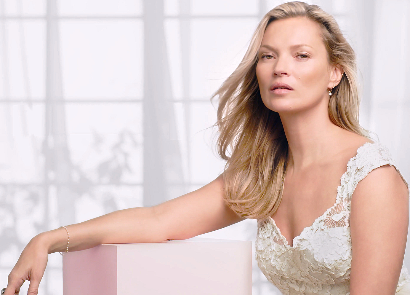 Kate Moss during an advertisement for Decorté.